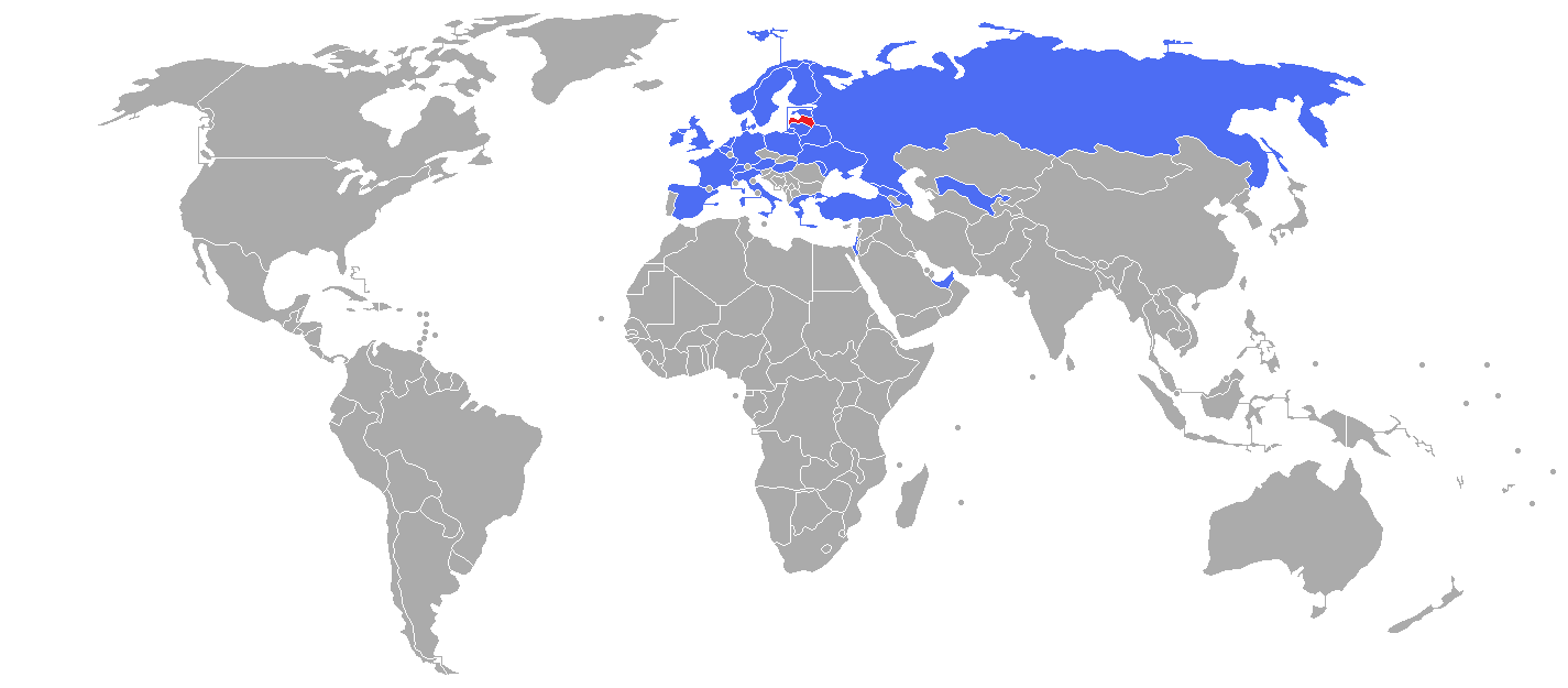 Air Baltic destinations as of April 2012